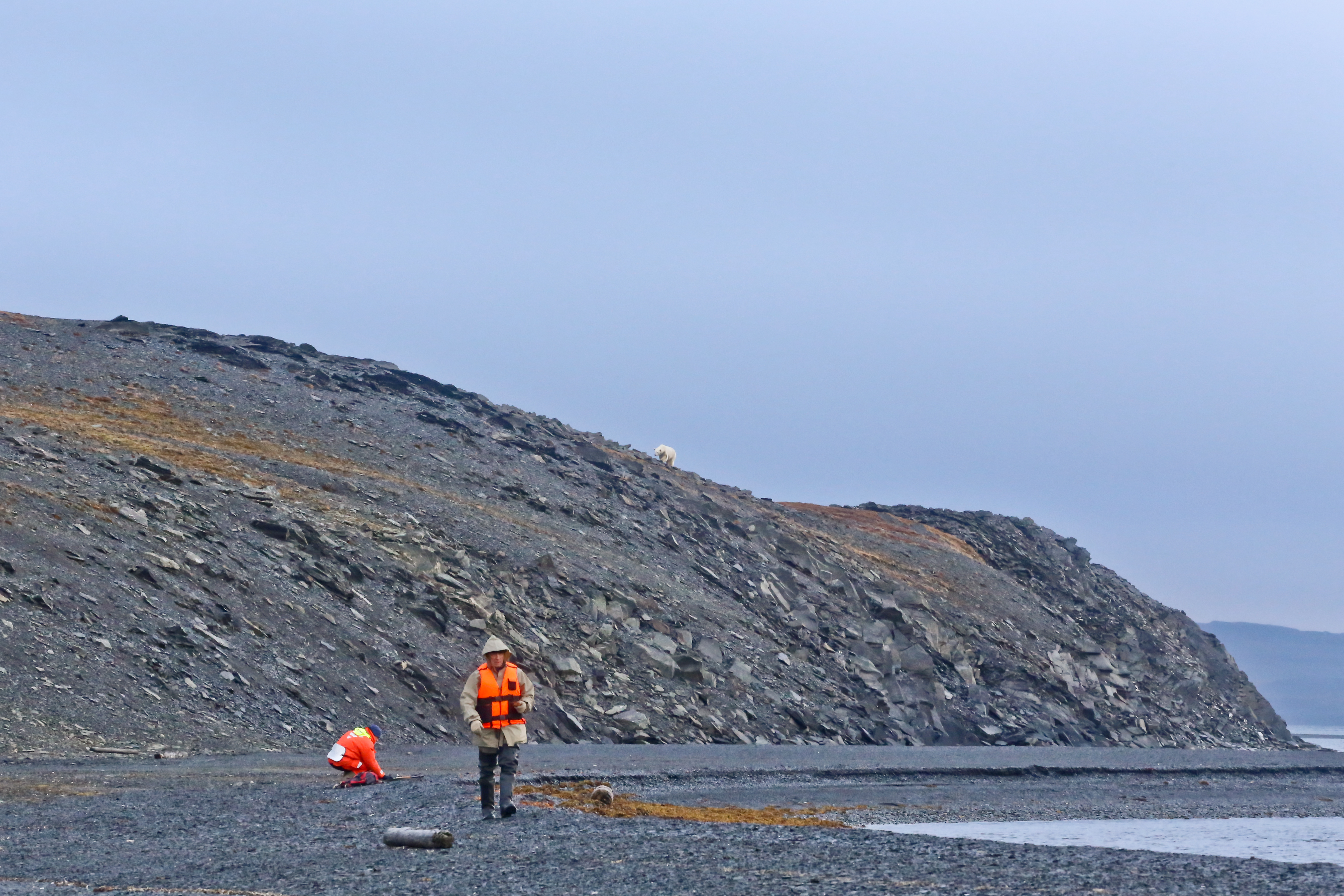 Meeting with a polar bear during a scientific work on the New Earth in the Gulf Stepovoy.